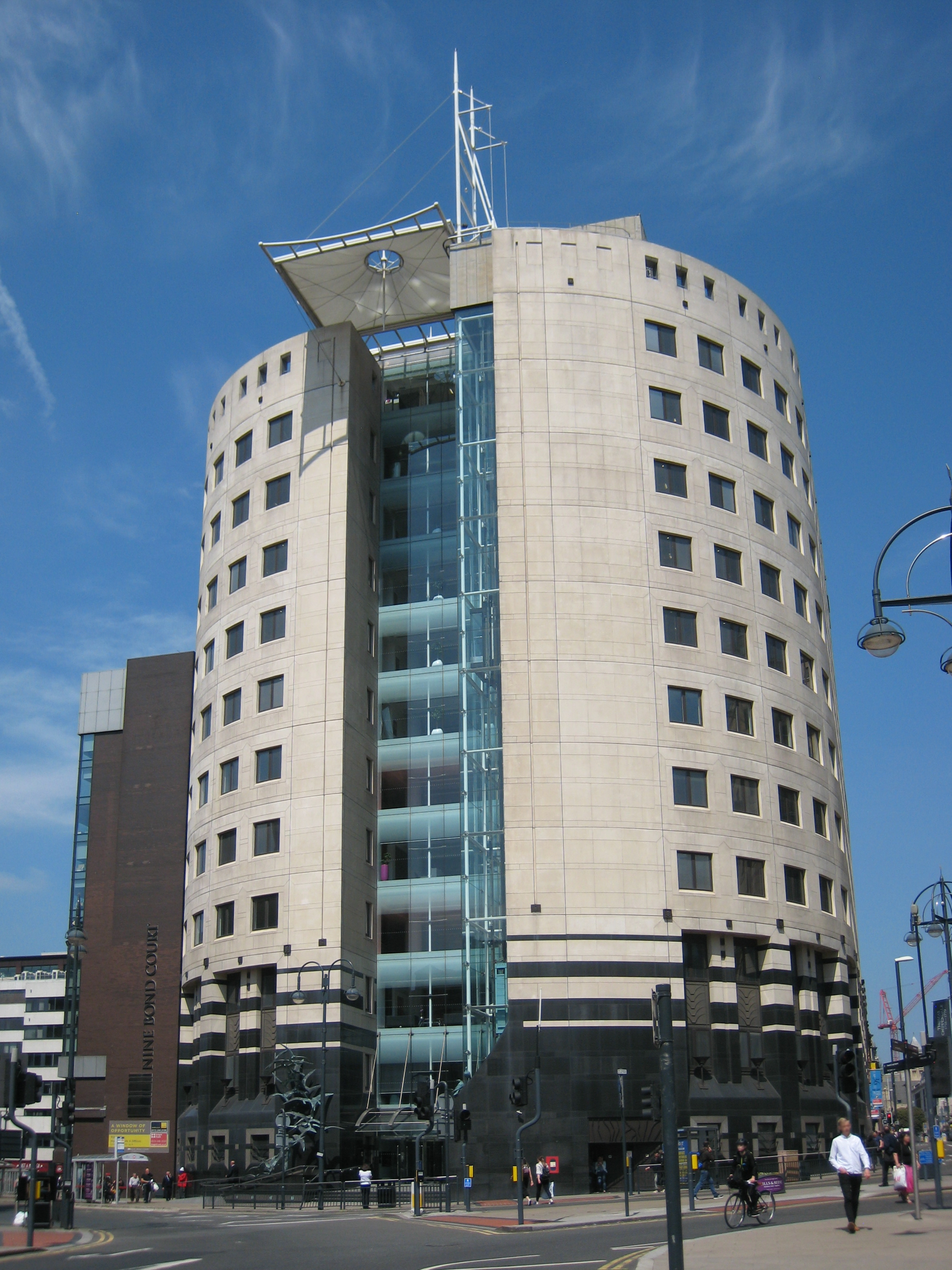 Number 1, City Square, Leeds